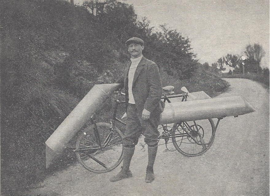 Early Amphibious bicycle by Baumgartner & Hirth (Aispel, Germany) ca. 1910.